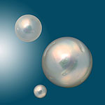 Pearl